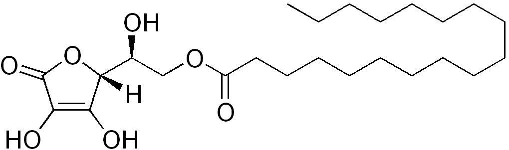 chemical structure of ascorbyl stearate